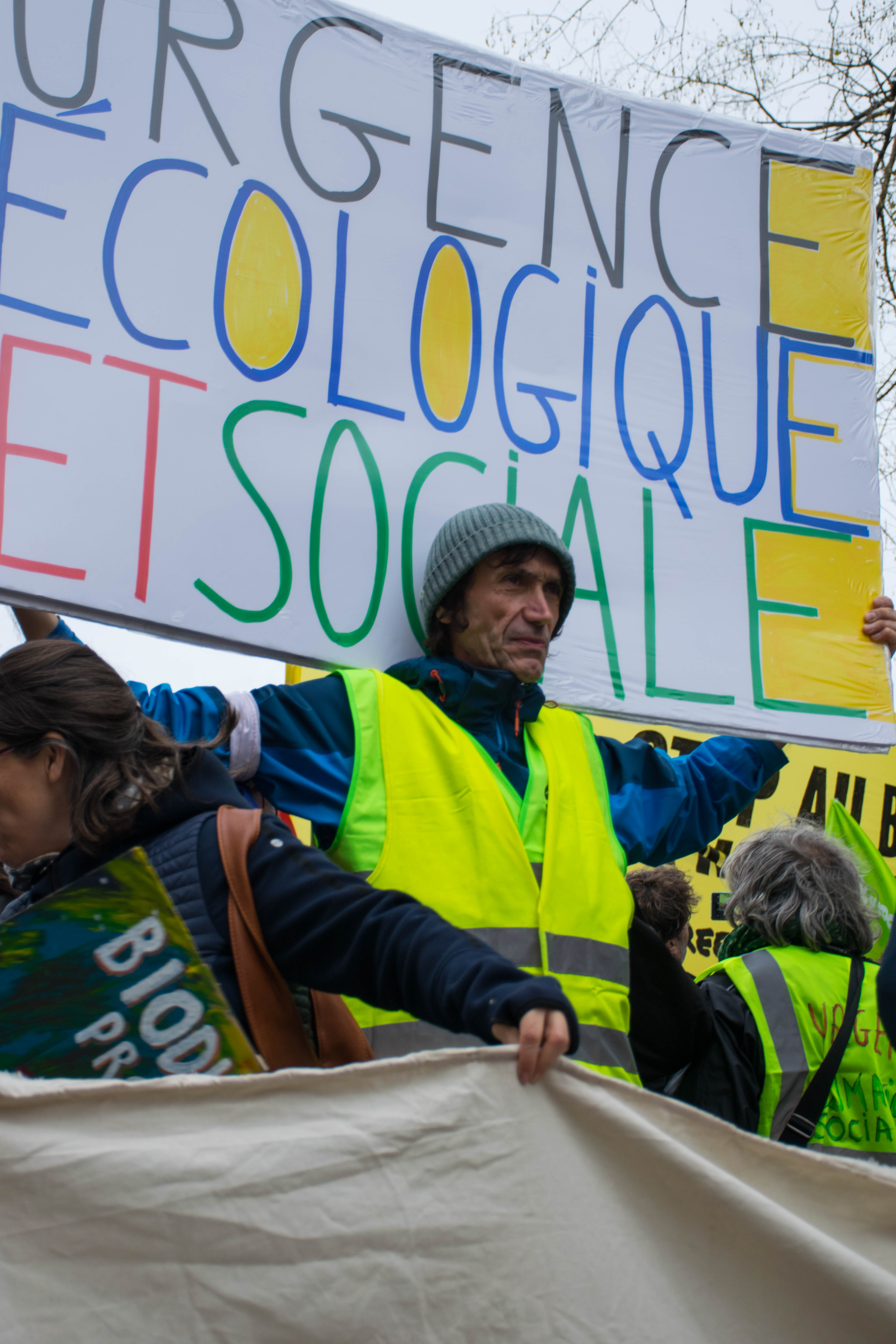 Marche pour le climat, december 8, 2018 in Paris, during Climate Change Conference in Poland (COP24). Activist Voltuan in yellow vest with poster "Urgence Ecologique Et Soziale" (ecological and social urgency [to act]).